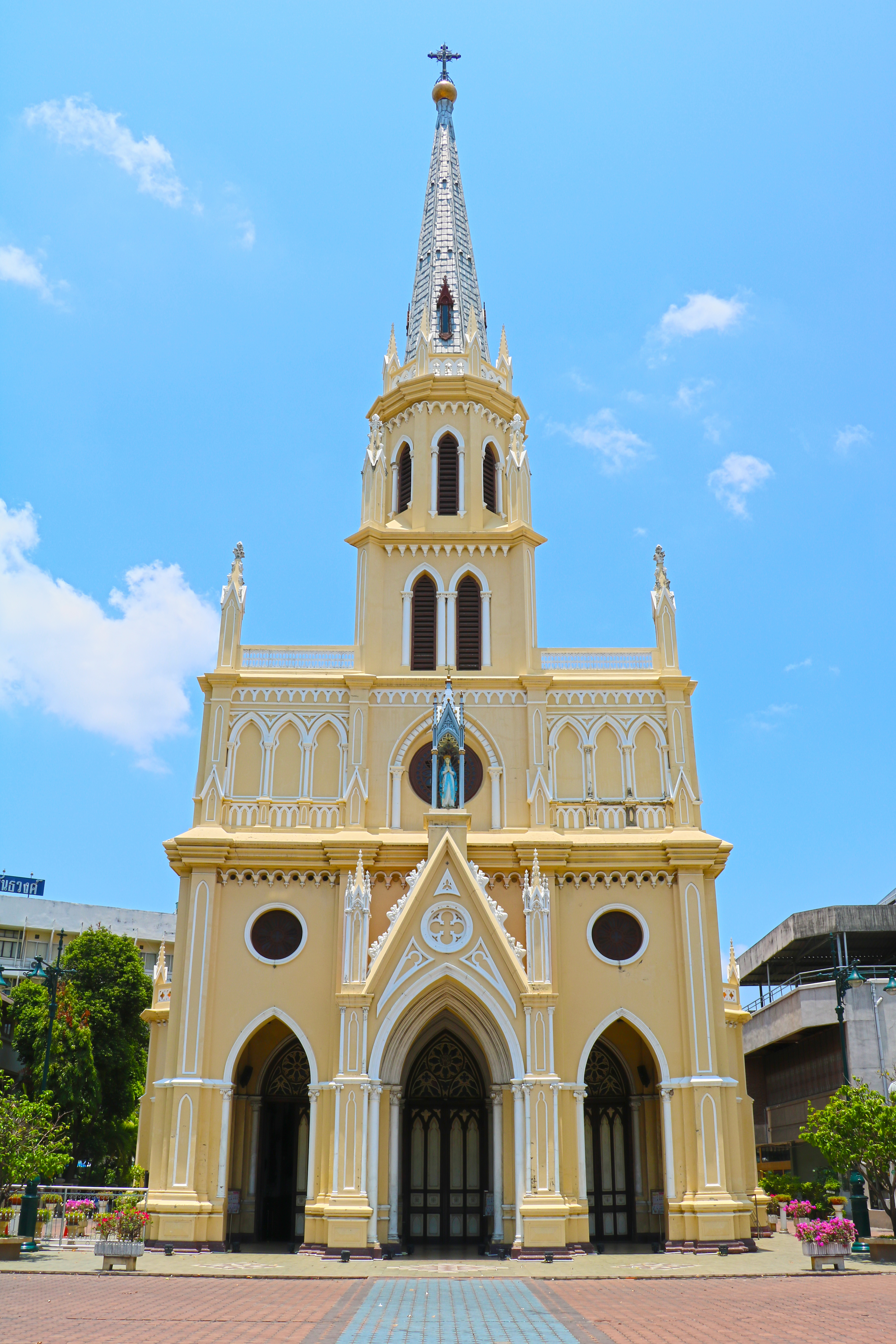 Holy Rosary Church Bangkok is one of the oldest Church along with Assumption Cathedral since Rattanakosin Kingdom period to present.